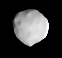 VLT's SPHERE spies rocky worlds From the description at File:Potw1749a.tif: These images were taken by ESO's SPHERE (Spectro-Polarimetric High-Contrast Exoplanet Research) instrument, installed on the Very Large Telescope at the Paranal Observatory, Chile. These strikingly-detailed views reveal four of the millions of rocky bodies in the main asteroid belt, a ring of asteroids between Mars and Jupiter that separates the rocky inner planets of the Solar System from the gaseous and icy outer planets. Clockwise from top left, the asteroids shown here are 29 Amphitrite, 324 Bamberga, 2 Pallas, and 89 Julia. Named after the Greek goddess Pallas Athena, 2 Pallas is about 510 kilometres wide. This makes it the third largest asteroid in the main belt and one of the biggest asteroids in the entire Solar System. It contains about 7% of the mass of the entire asteroid belt — so hefty that it was once classified as a planet. A third of the size of 2 Pallas, 89 Julia is thought to be named after St Julia of Corsica. Its stony composition led to its classification as an S-type asteroid. Another S-type asteroid is 29 Amphitrite, which was only discovered in 1854. 324 Bamberga, one of the largest C-type asteroid in the asteroid belt, was discovered even later: Johann Palisa found it in 1892. Today, it is understood that C-type asteroids may actually be bodies from the outer Solar System following the migration of the giant planets. As such, they may contain ice in their interior. Although the asteroid belt is often portrayed in science fiction as a place of violent collisions, packed full of large rocks too dangerous for even the most skilled of space pilots to navigate, it is actually very sparse. In total, the asteroid belt contains just 4% of the mass of the Moon, with about half of this mass contained in the four largest residents: Ceres, 4 Vesta, 2 Pallas, and 10 Hygiea.